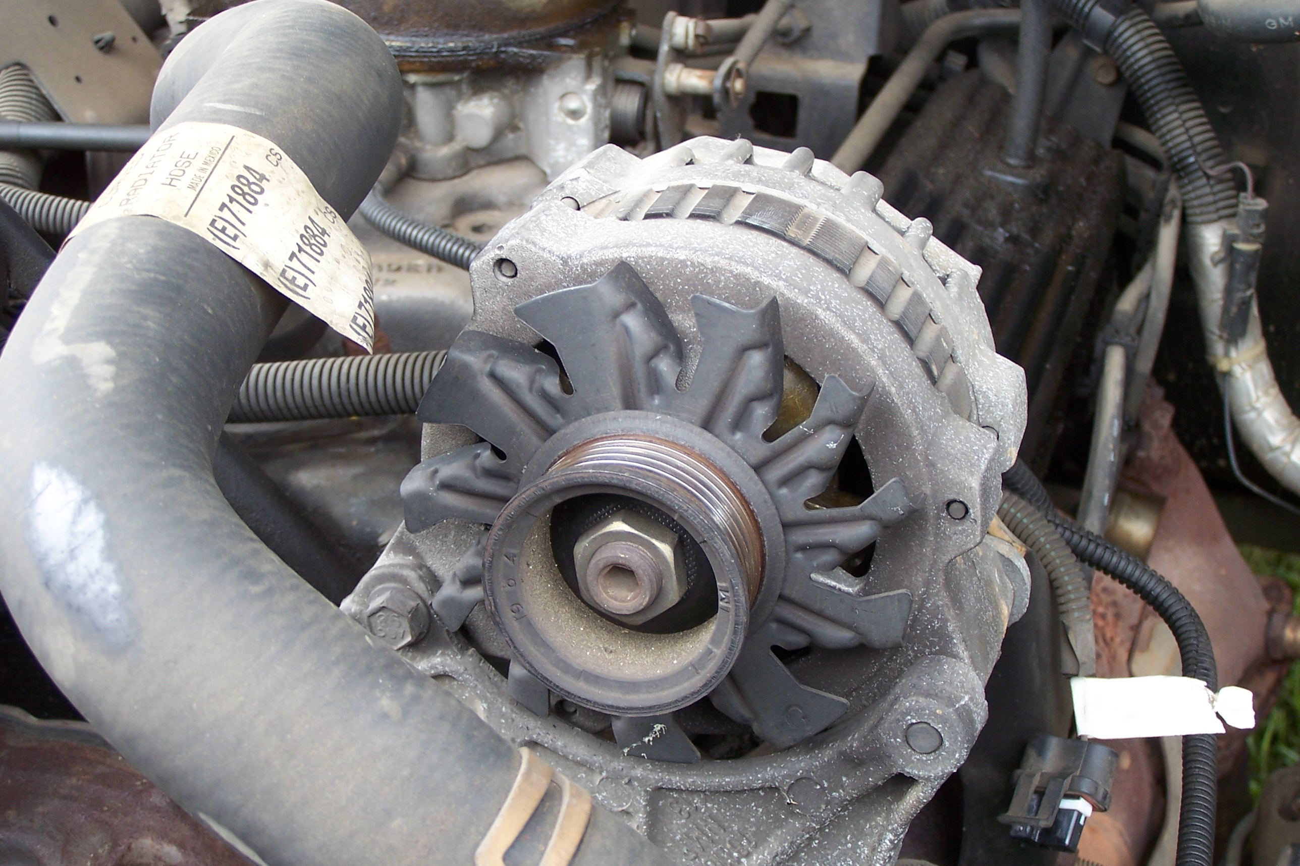 An alternator for a 1993 Chevy Silverado 1500.